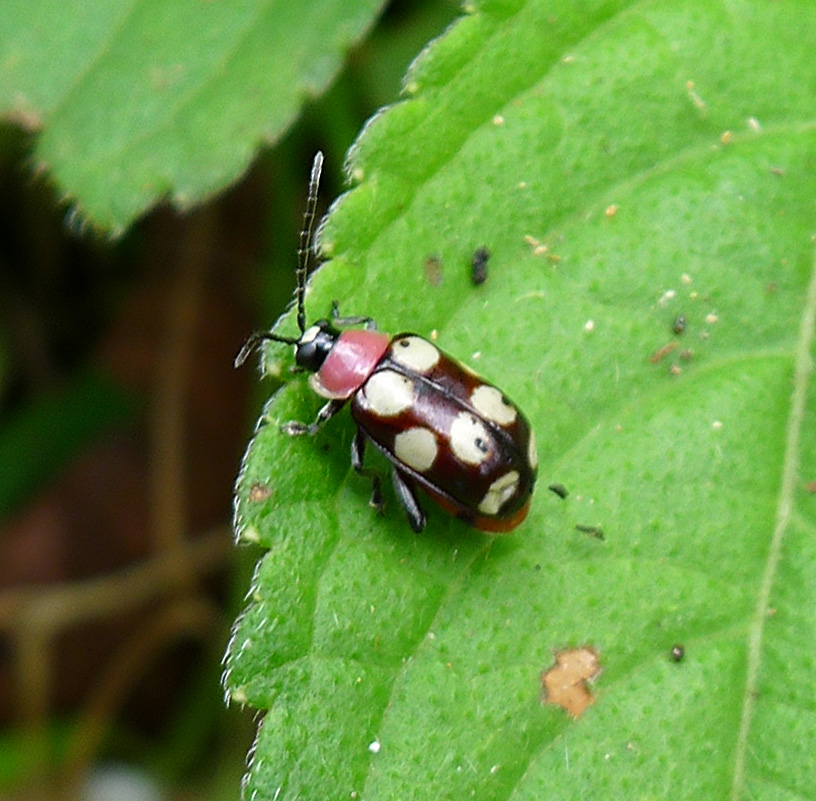 Family Chrysomelidae (Leaf Beetles) Subfamily Galerucinae (Skeletonizing Leaf Beetles and Flea Beetles) Tribe Alticini